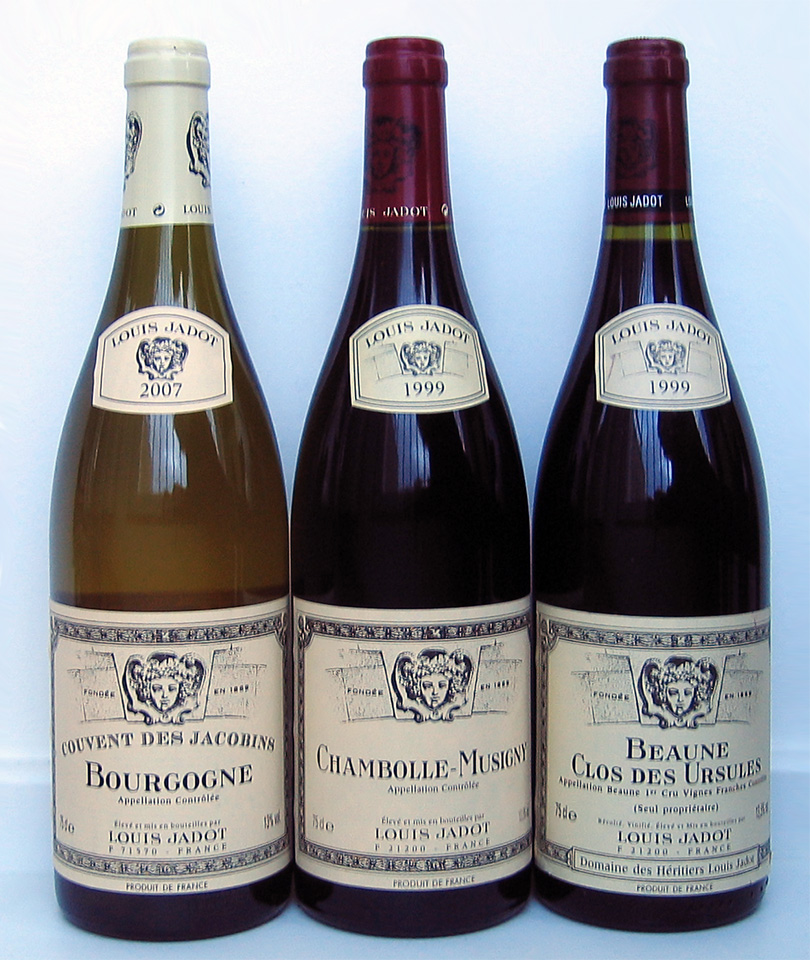 Three bottles of wine from Louis Jadot, Burgundy, one white and two red. The right-hand bottle is from their own vineyards and carries a special designation at the bottom of the label.